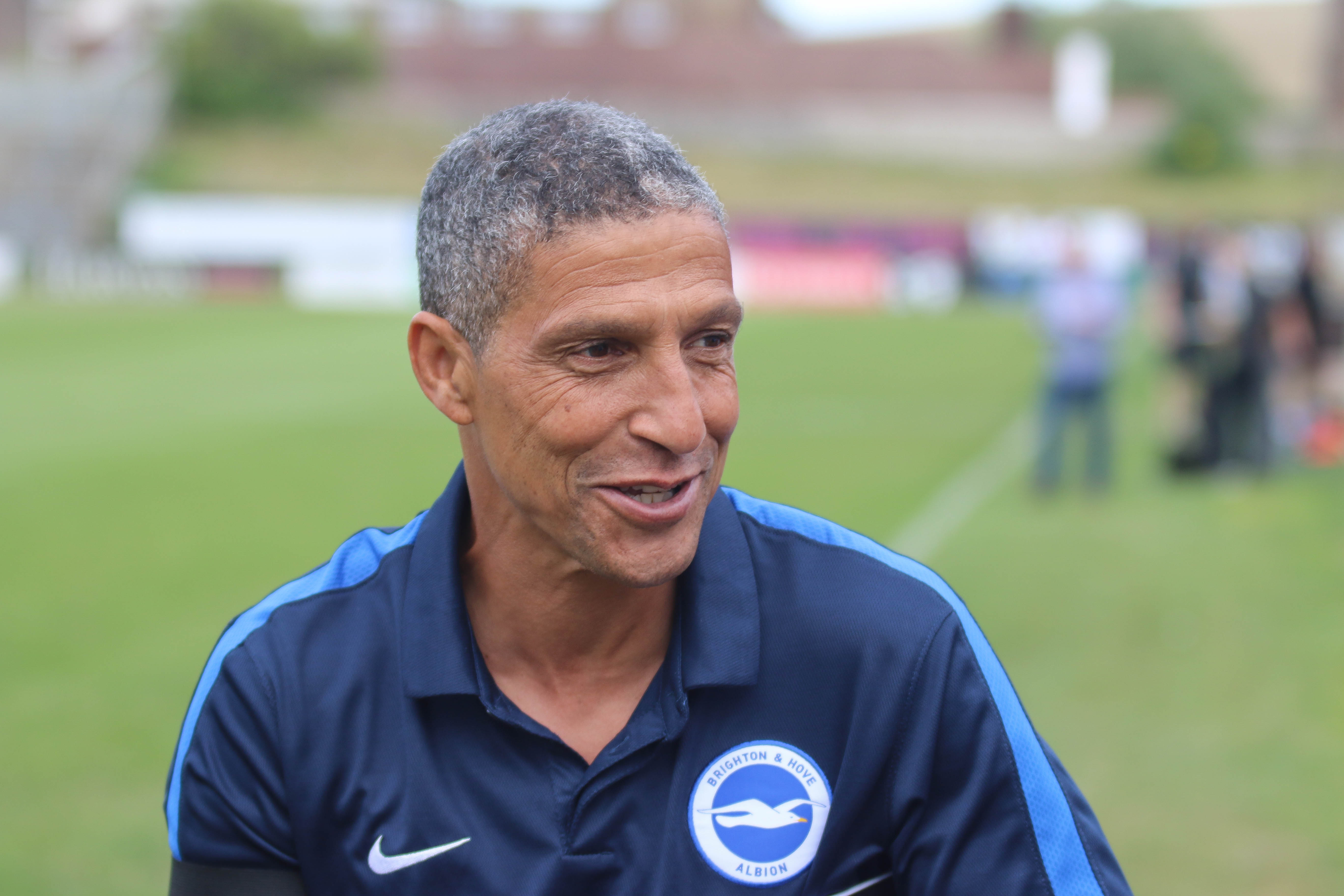 Lewes 0 BHA 0 18 July 2015-1173.jpg